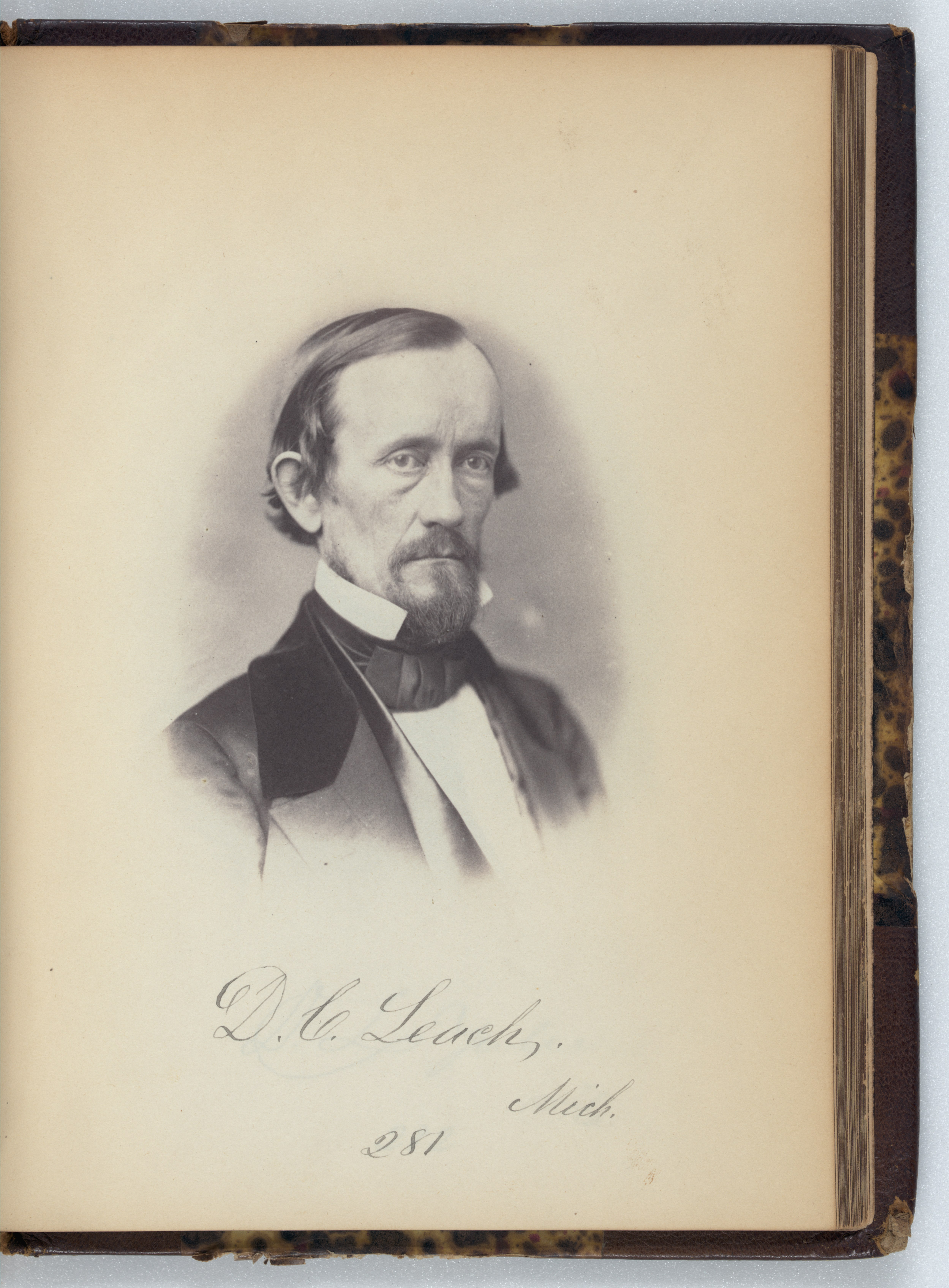 Title: DeWitt C. Leach, Representative from Michigan, Thirty-fifth Congress, half-length portrait Abstract/medium: 1 photographic print : salted paper ; 19.7 x 14.3 cm.